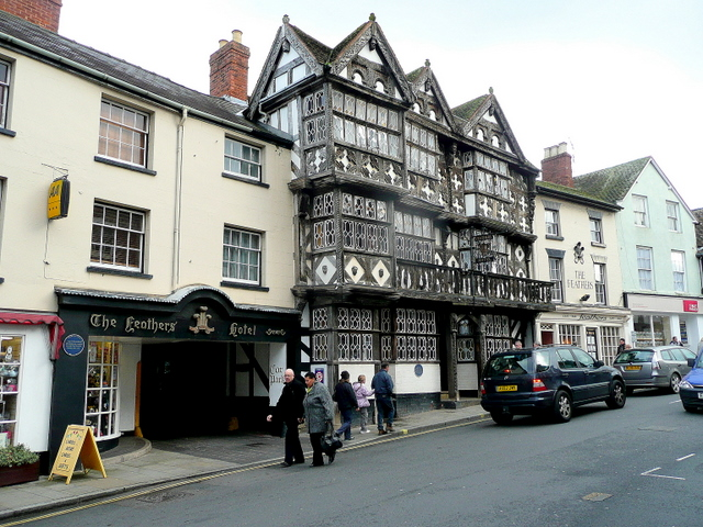 The Feathers Hotel, Ludlow. A 2009 view of this fine building that I first photographed back in 1998 - see; 312840.